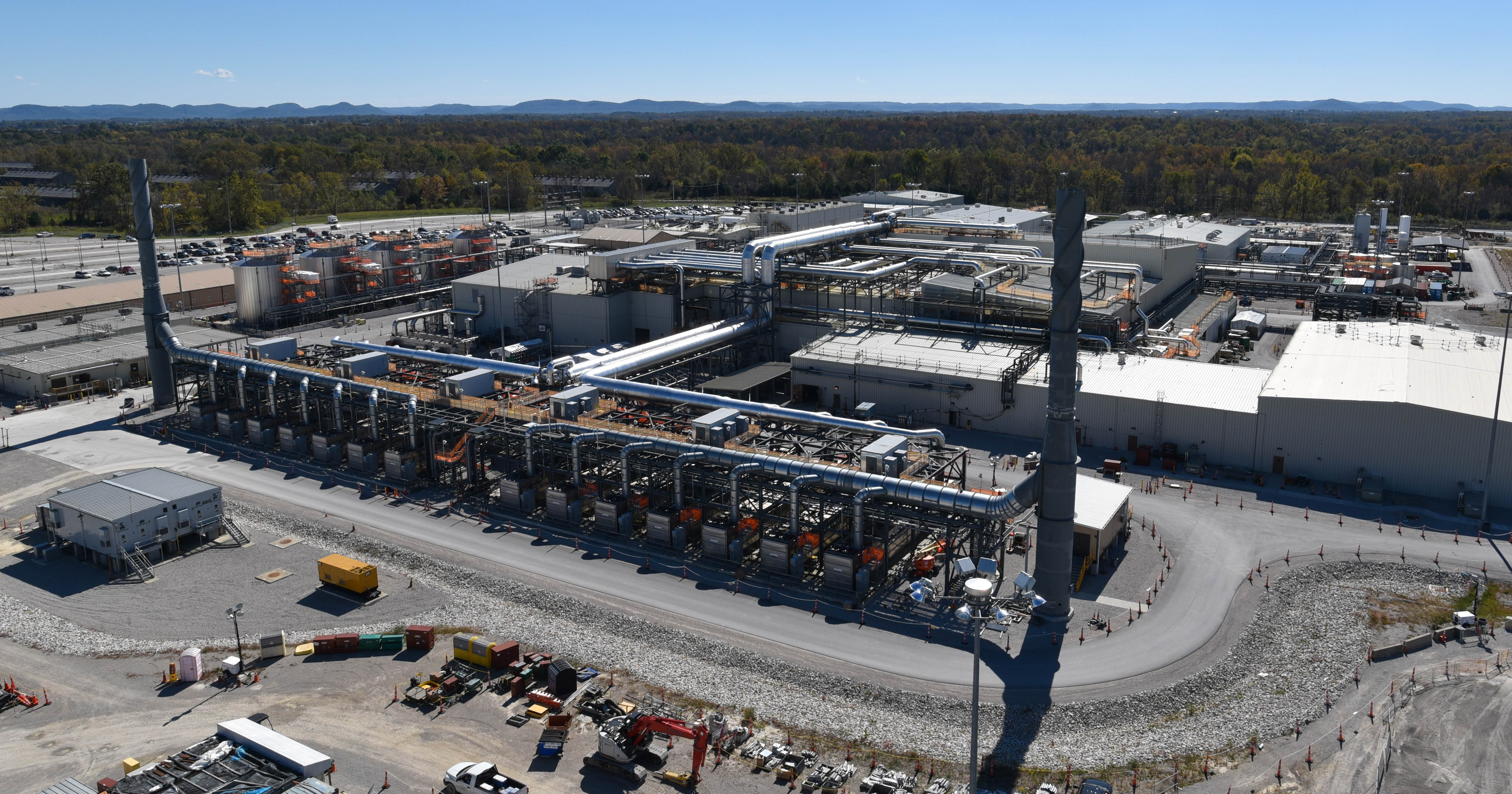 The Blue Grass Chemical Agent-Destruction Pilot Plant is located on 19 acres at the Blue Grass #Army Depot near Richmond, Kentucky. #BGCAPP will use a two-step process of neutralization followed by supercritical water oxidation to destroy nerve agent, VX and Sarin (GB), contained in rockets and projectiles. chemicalweapons #destruction #commitment #ACWA #BGAD #sky #aerial #Kentucky #Richmond #MadisonCounty